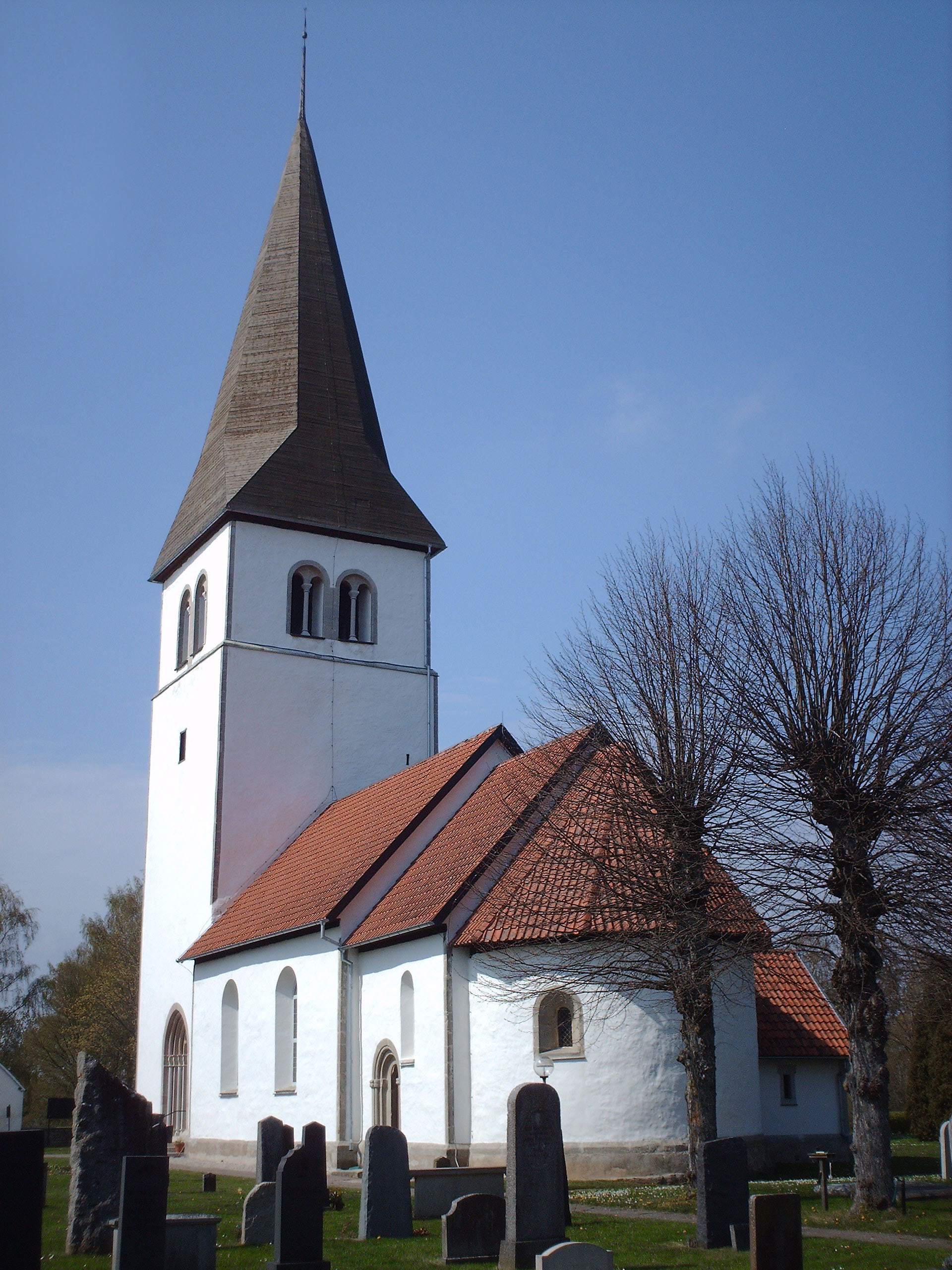 Hemse Church, Gotland, Sweden.